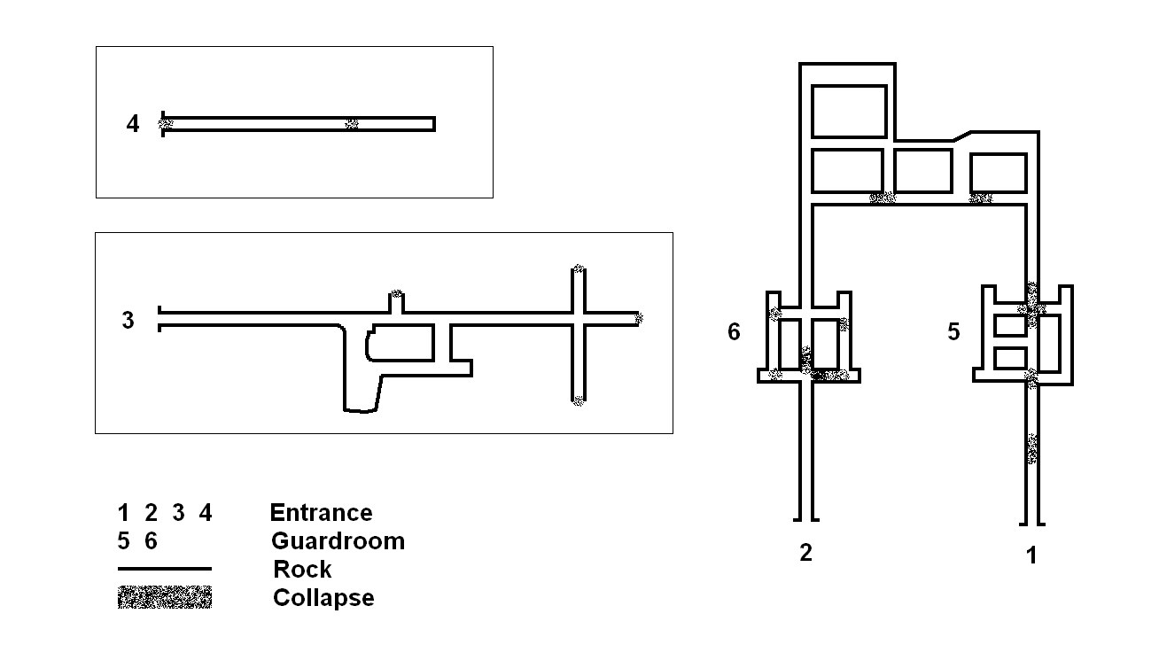 Diagram of the underground complex Sokolec, a part of the project Riese.